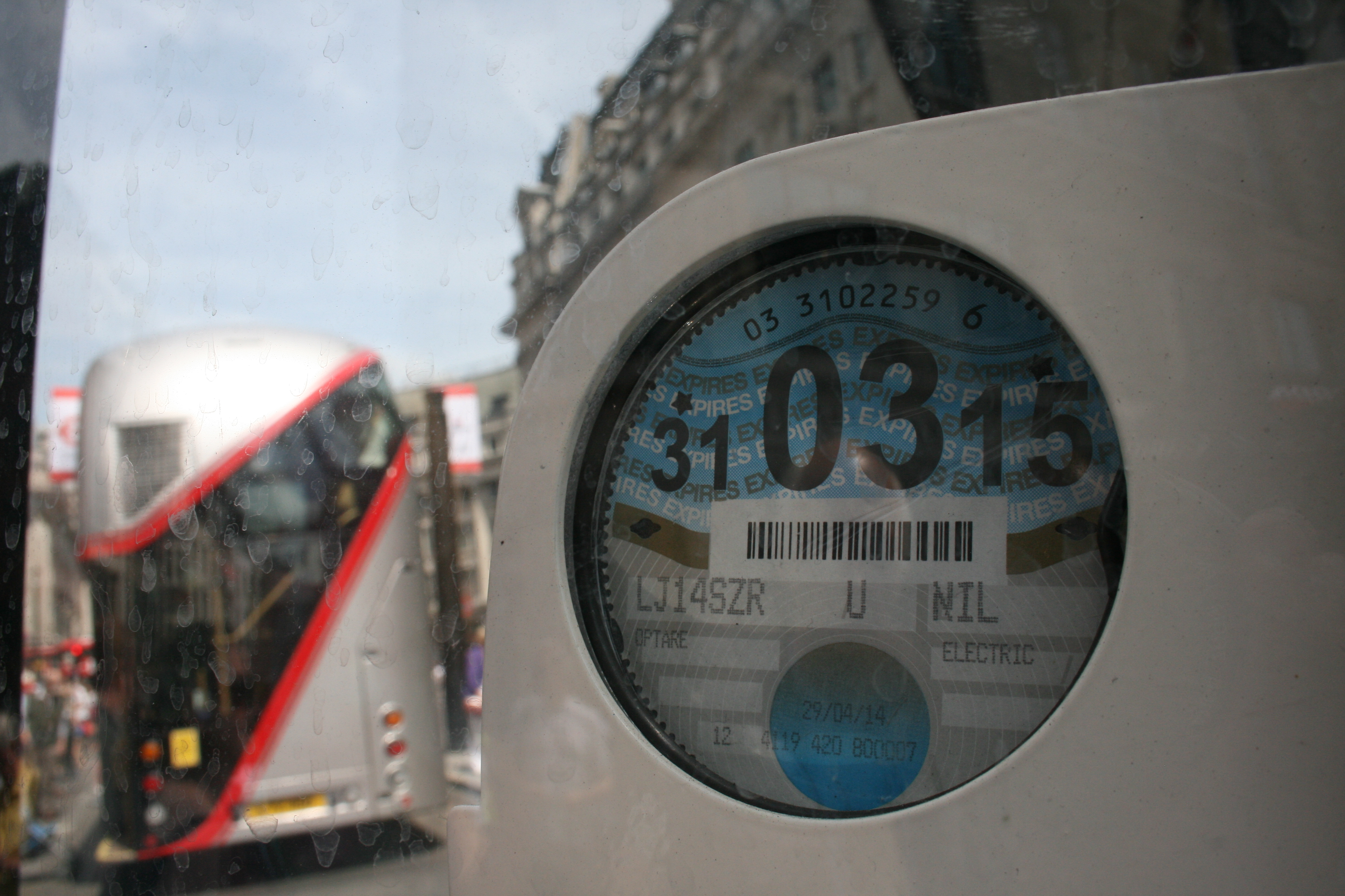 A view of the rear of New Routemaster LT150 (reg. LTZ 1150) from inside Optare MetroCity OCE3 (reg. LJ14 SZR) showing its tax disc, while both were at the Regent Street Bus Cavalcade.